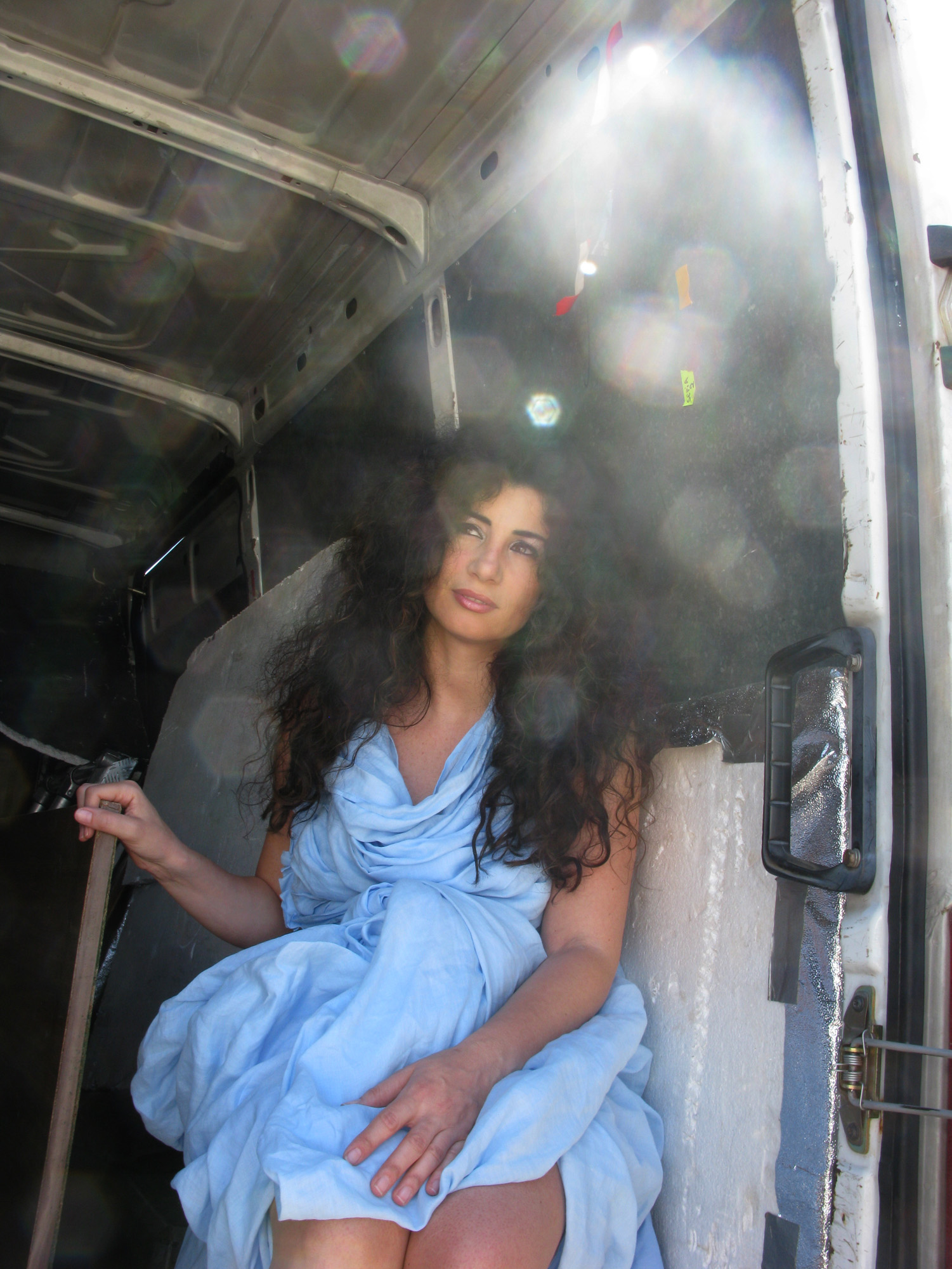 poet joumana haddad on the set of the movie "what's going on".